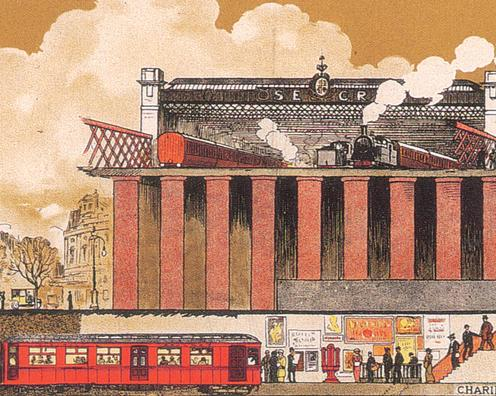 The underground District Railway at Embankment station is shown under Charing Cross in London in 1914 in a section of a poster from UERL advertising opening of Charing Cross, Euston and Hampstead Railway extension to Charing Cross Underground station, London